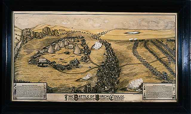 Lithograph depicting the Battle of Birch Coulee. Lithographer: Paul G. Biersach (1845-1927) Art Collection, Lithograph 1912 Location no. AV1998.19 Negative no. 76498